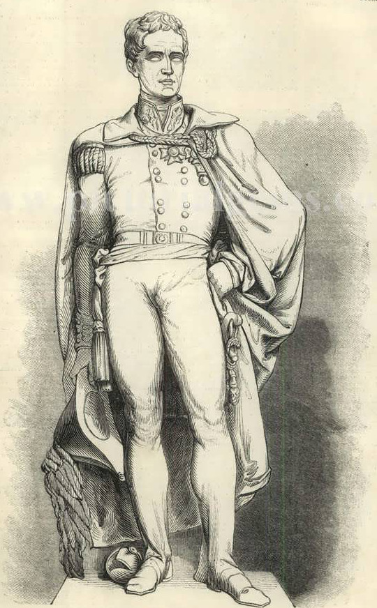 Major General John Thomas Jones engraving from the Pictorial Times of engraving of memorial. (A statue by Mr. Behnes was erected to his memory in the south transept of St. Paul's Cathedral) Jones (1783–1843) was a British major-general in the Royal Engineers who played a leading engineering role in a number of European campaigns of the early nineteenth century.